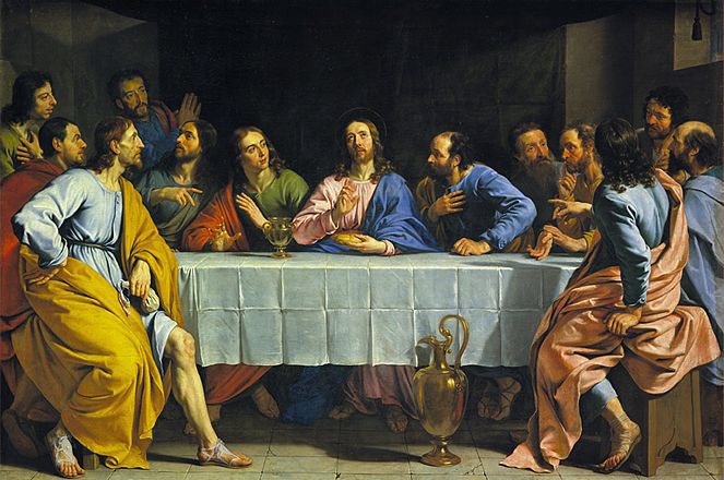 The Last Supper